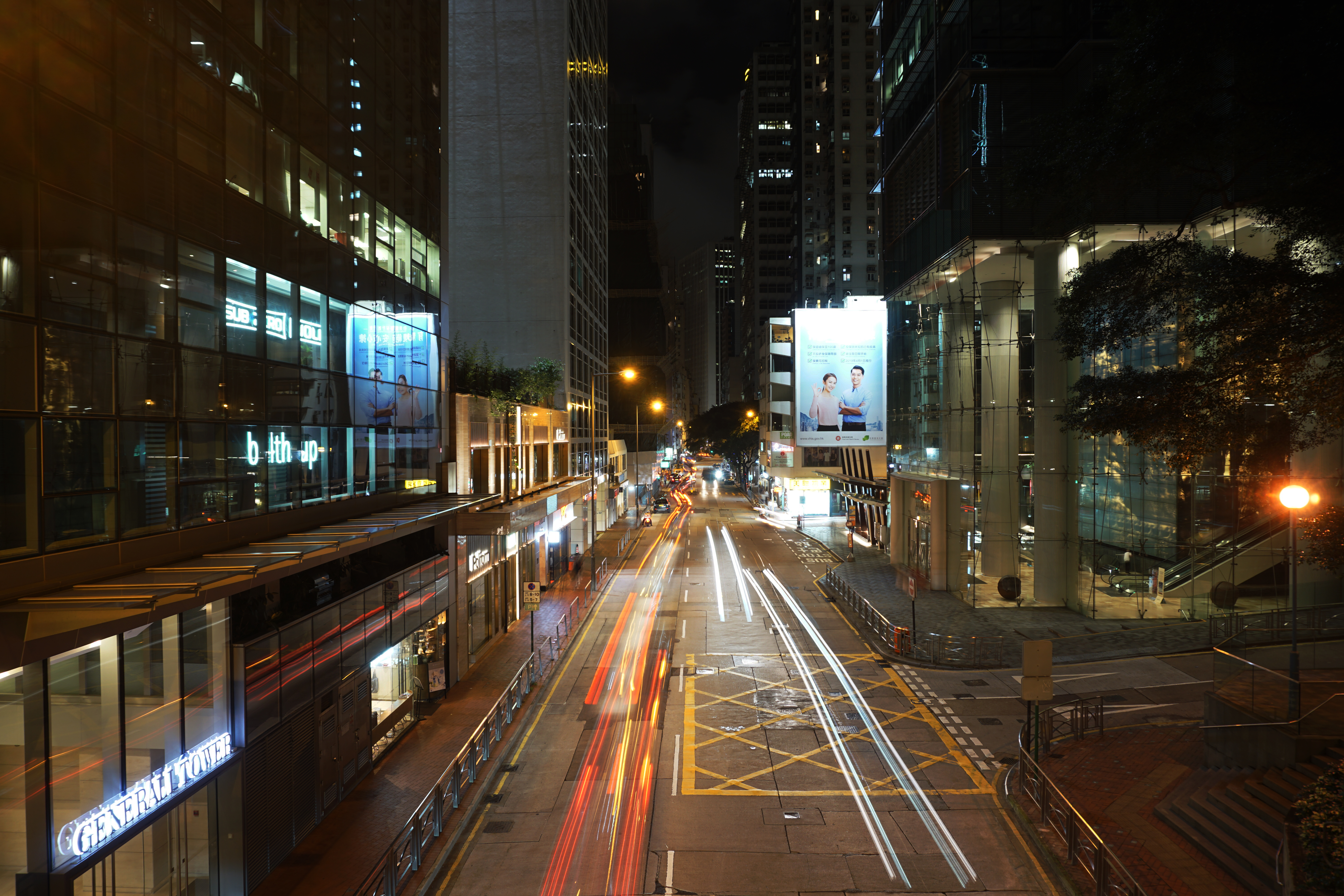 Queen's Road East in Admiralty, Hong Kong.